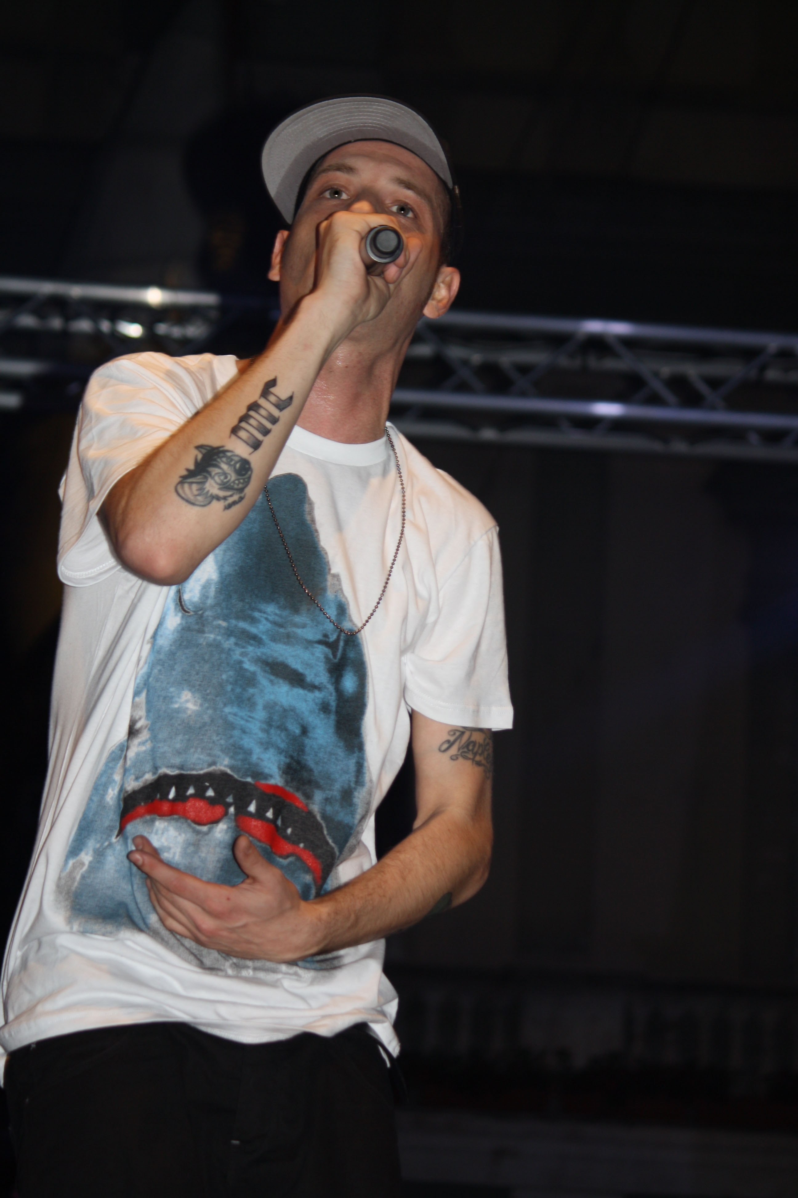 The Italian rapper Clementino during a live exhibition in Nola in 2013.